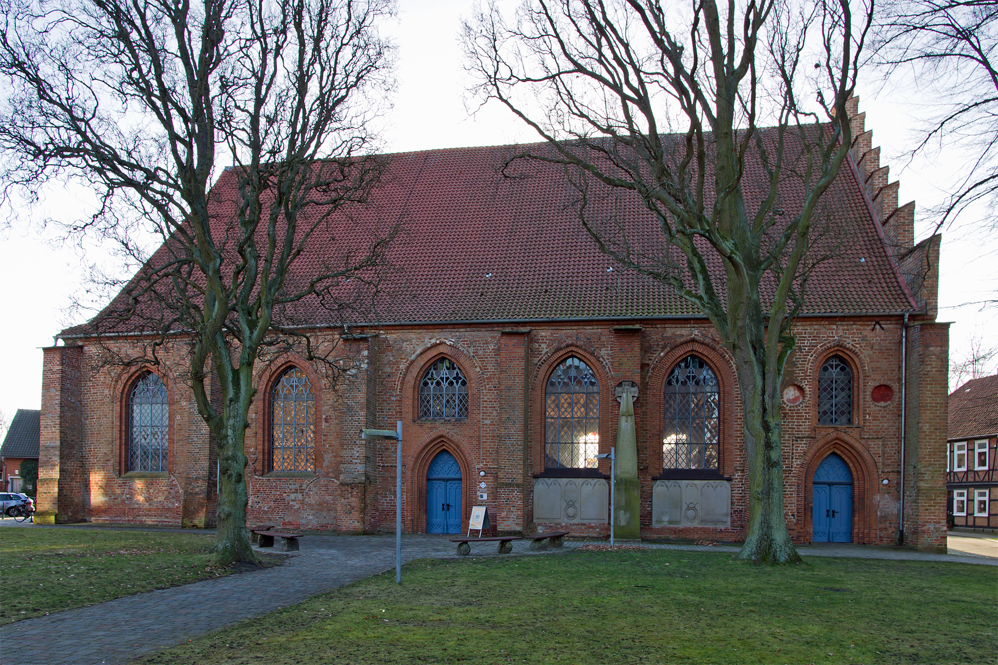 Church of the small town Lüchow (district Lüchow-Dannenberg, northern Germany).